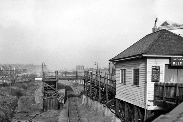 Belmont (Middlesex) Station. View northward, towards Stanmore; Harrow & Wealdstone - Stanmore branch, closed Belmont - Stanmore (Village) 15/9/52 (goods 6/7/64); Belmont station (only opened 12/9/32) was closed 5/10/64 when line from Harrow was closed (completely).